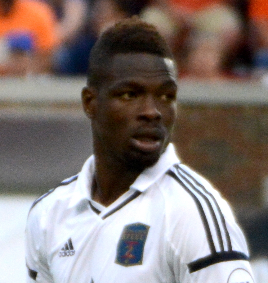 Cory Burke Taken during a match between FC Cincinnati and Bethlehem Steel FC at Nippert Stadium in Cincinnati, USA on May 20, 2017.